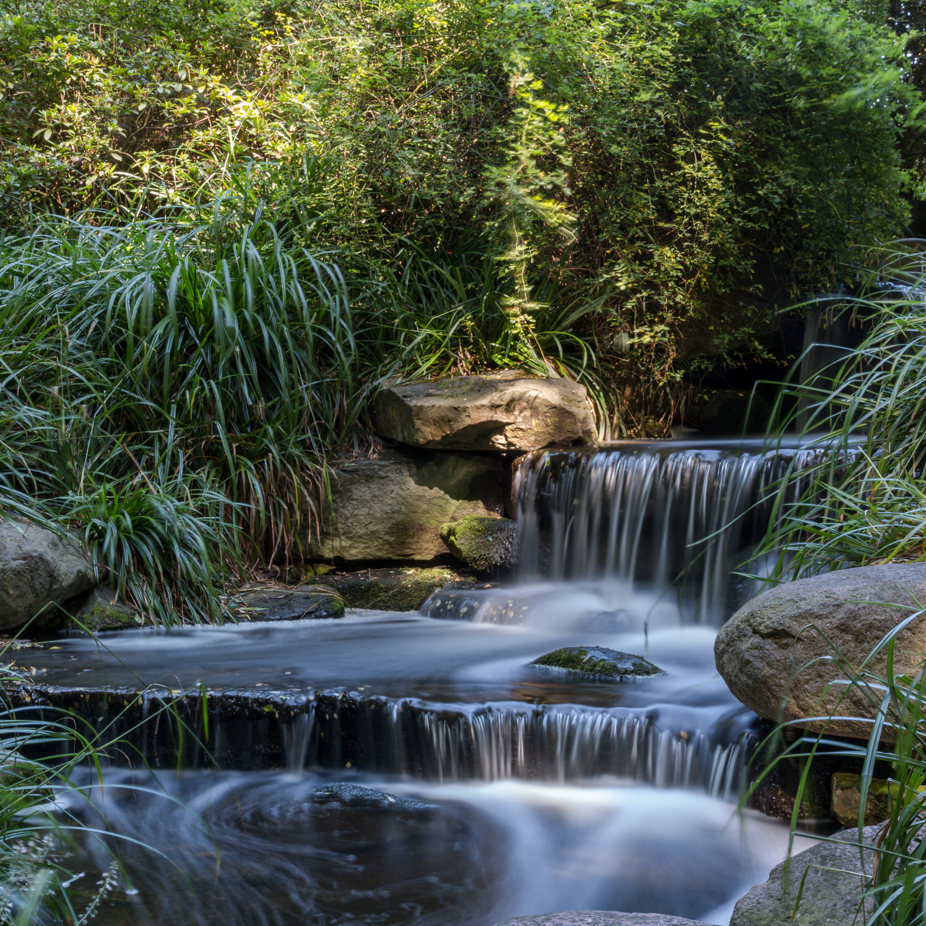 Falls at the Promenade, Münster, North Rhine-Westphalia, Germany This image shows a heritage building in Germany, located in the North Rhine-Westphalian city Münster.